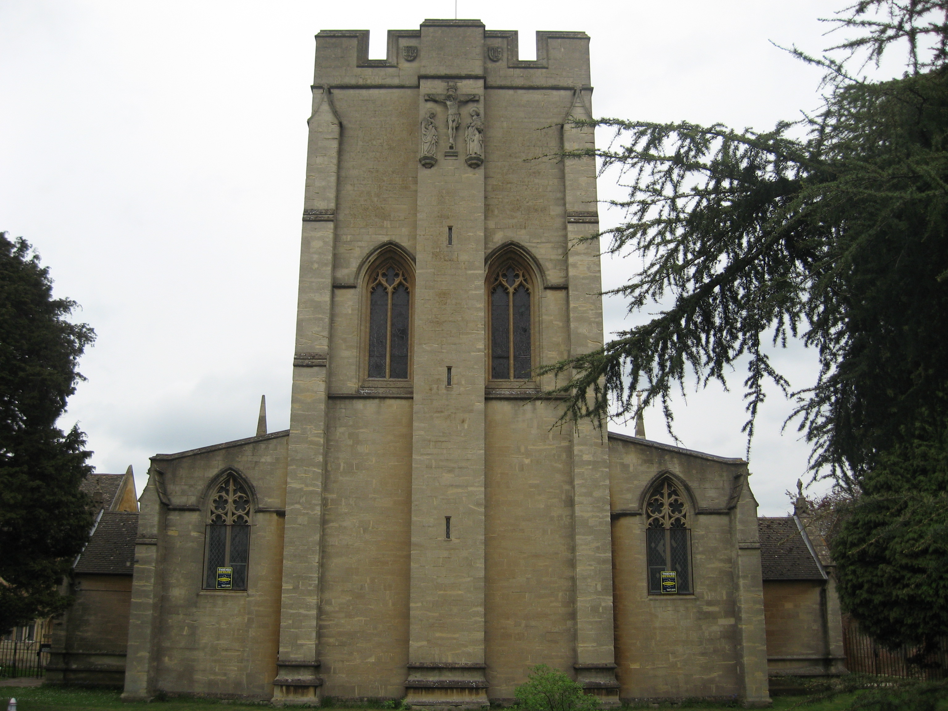 Parish church of St John the Evangelist, Iffley Road, Oxford, seen from the southwest